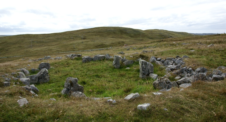 Scord of Brouster, West Mainland, Shetland, Scotland